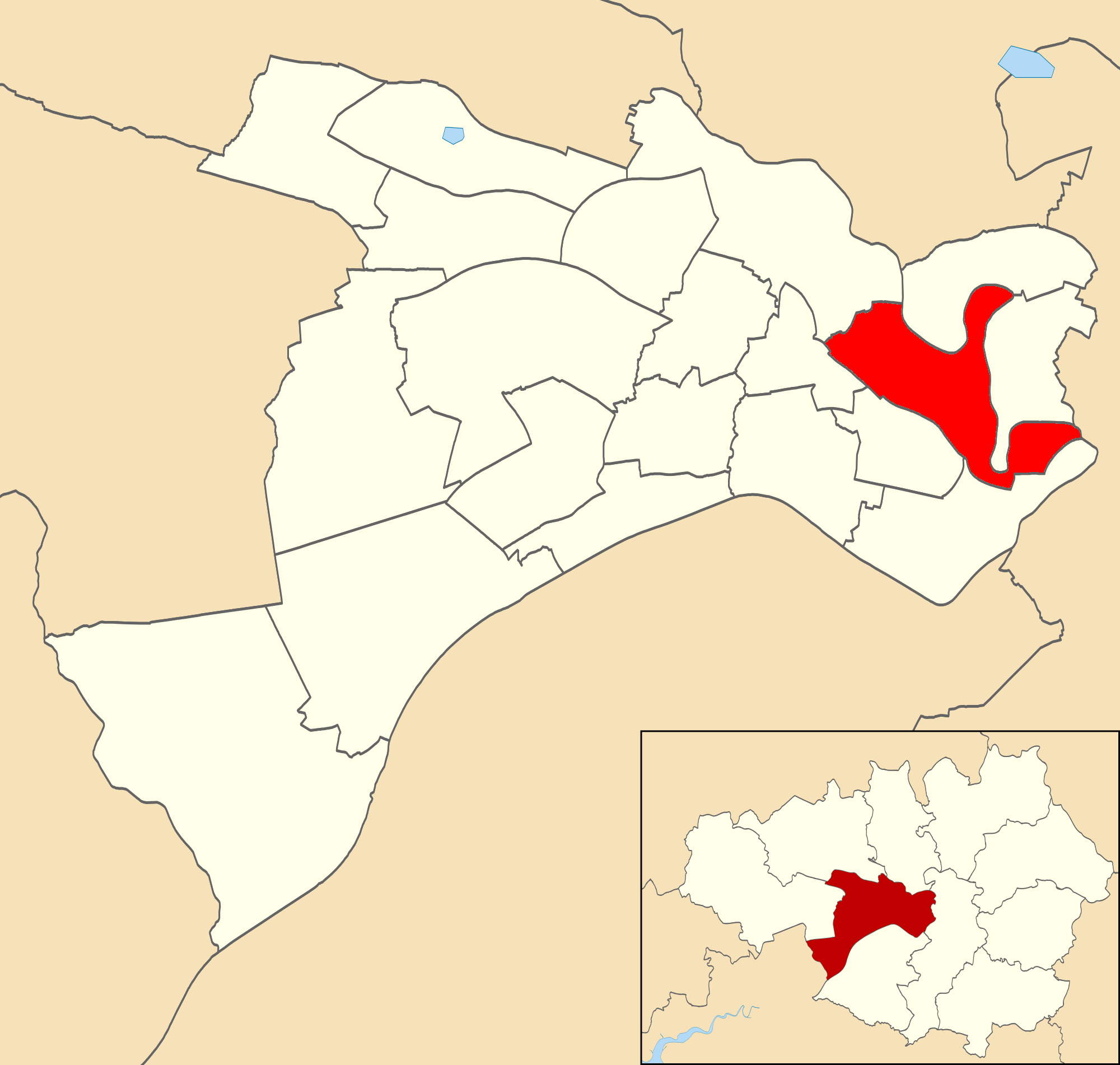 Map showing location of Irwell Riverside ward within Salford City Council.